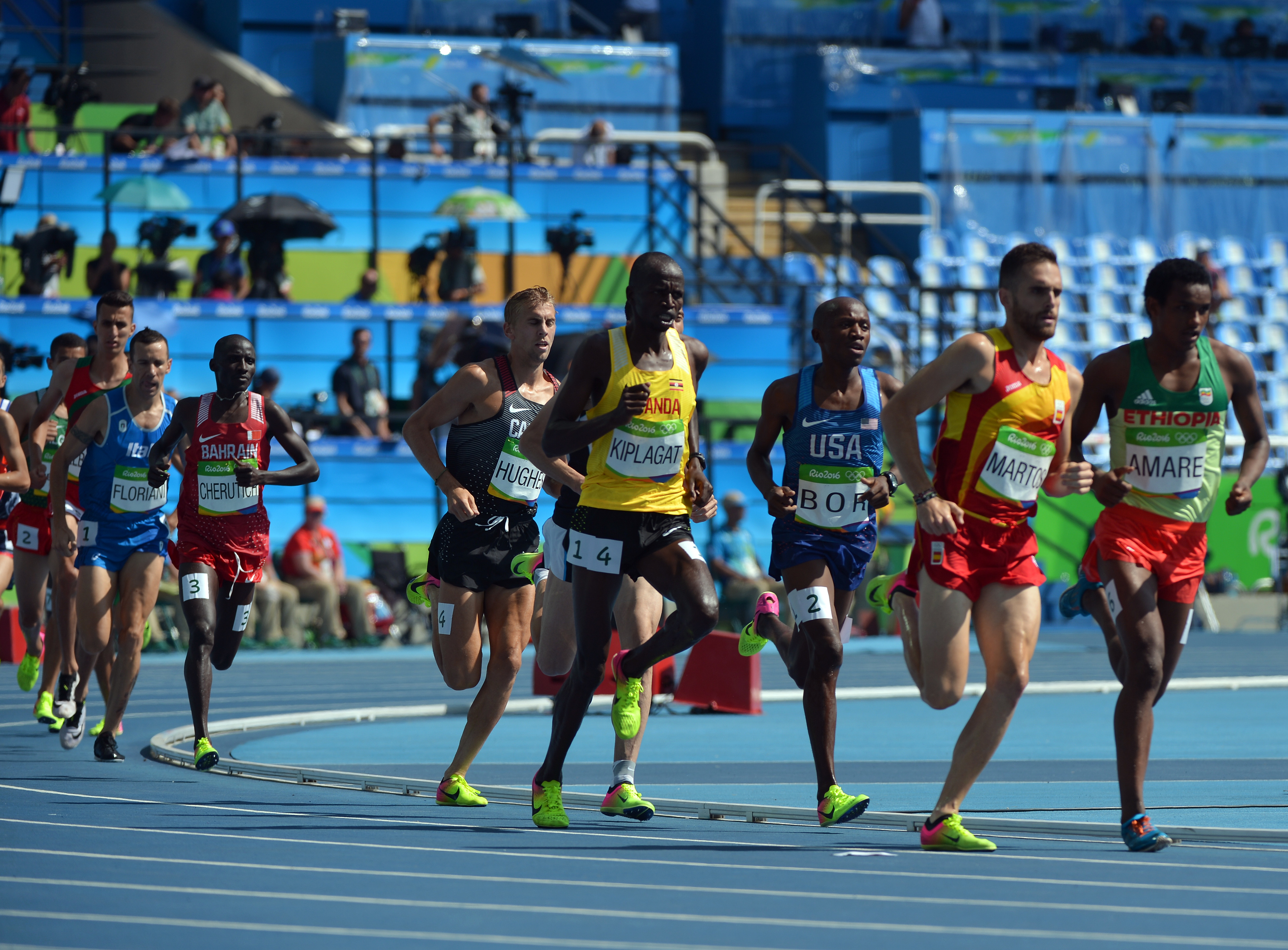 Sgt. Hillary Bor (fourth from left wearing No. 2) of the U.S. Army World Class Athlete Program wins the first of three qualifying heats in the men's 3,000-meter steeplechase with a time of 8 minutes, 25.01 seconds on August 15, 2016, at the 2016 Rio Olympic Games in Rio de Janeiro, Brazil. Morocco's Souflane Elbakkali finished second in 8:25.17, followed by Ezekiel Kemboi (8:25.51) of Kenya. All three runners advance to the final, scheduled for Aug. 17 at 11:50 a.m. in Rio (10:50 ET). (U.S. Army photo by Tim Hipps)